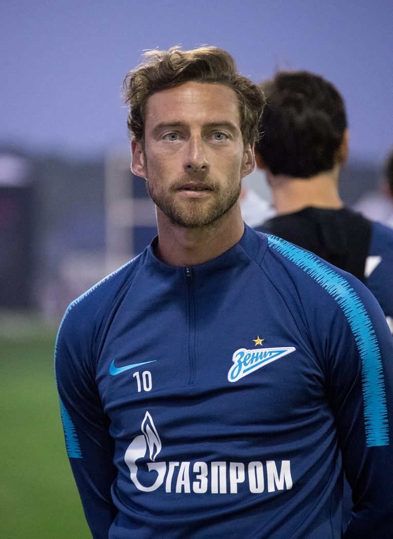 Claudio Marchisio 2019